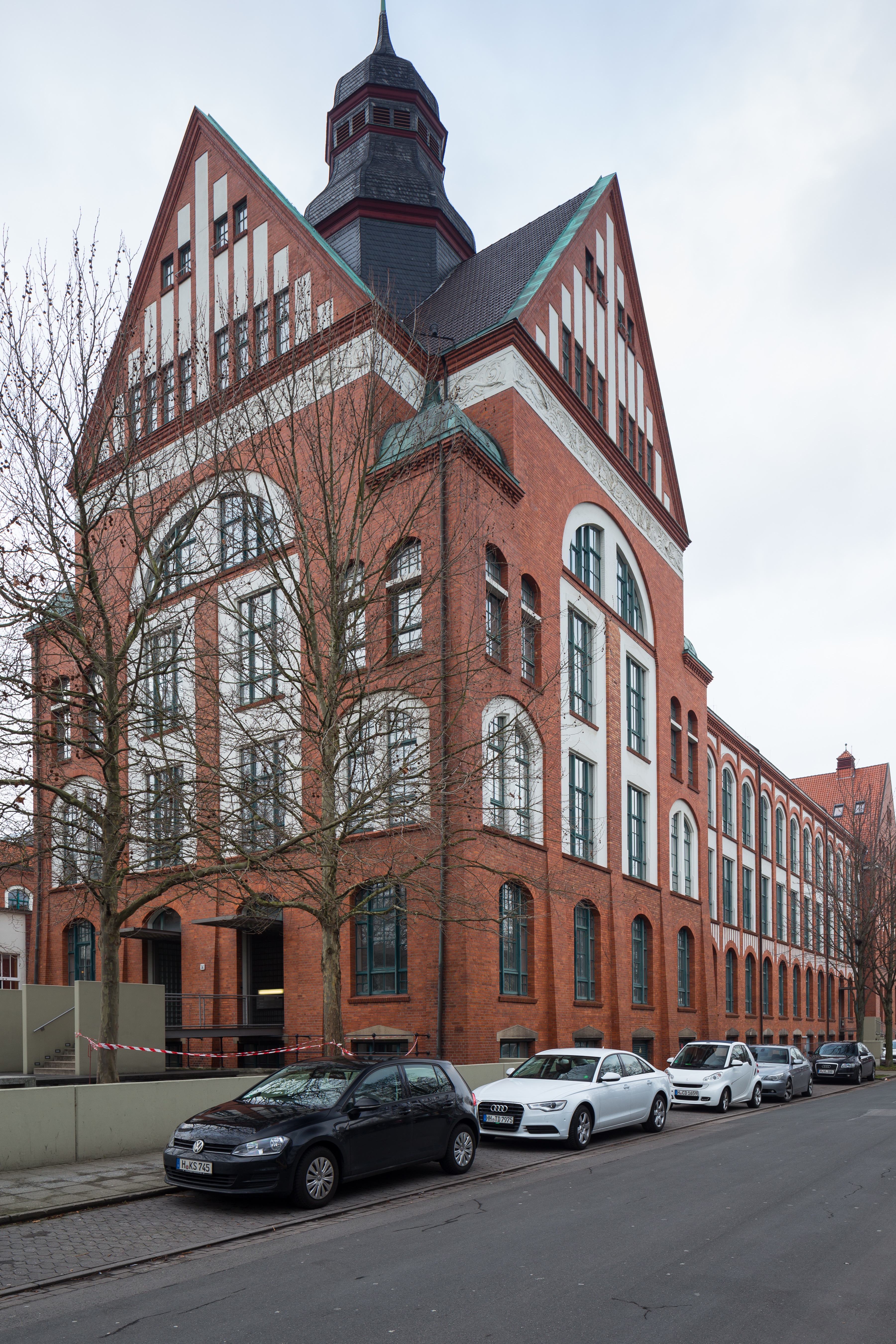 Former factory building of office equipment maker Pelikan located at Pelikanstrasse in List district of Hanover, Germany.